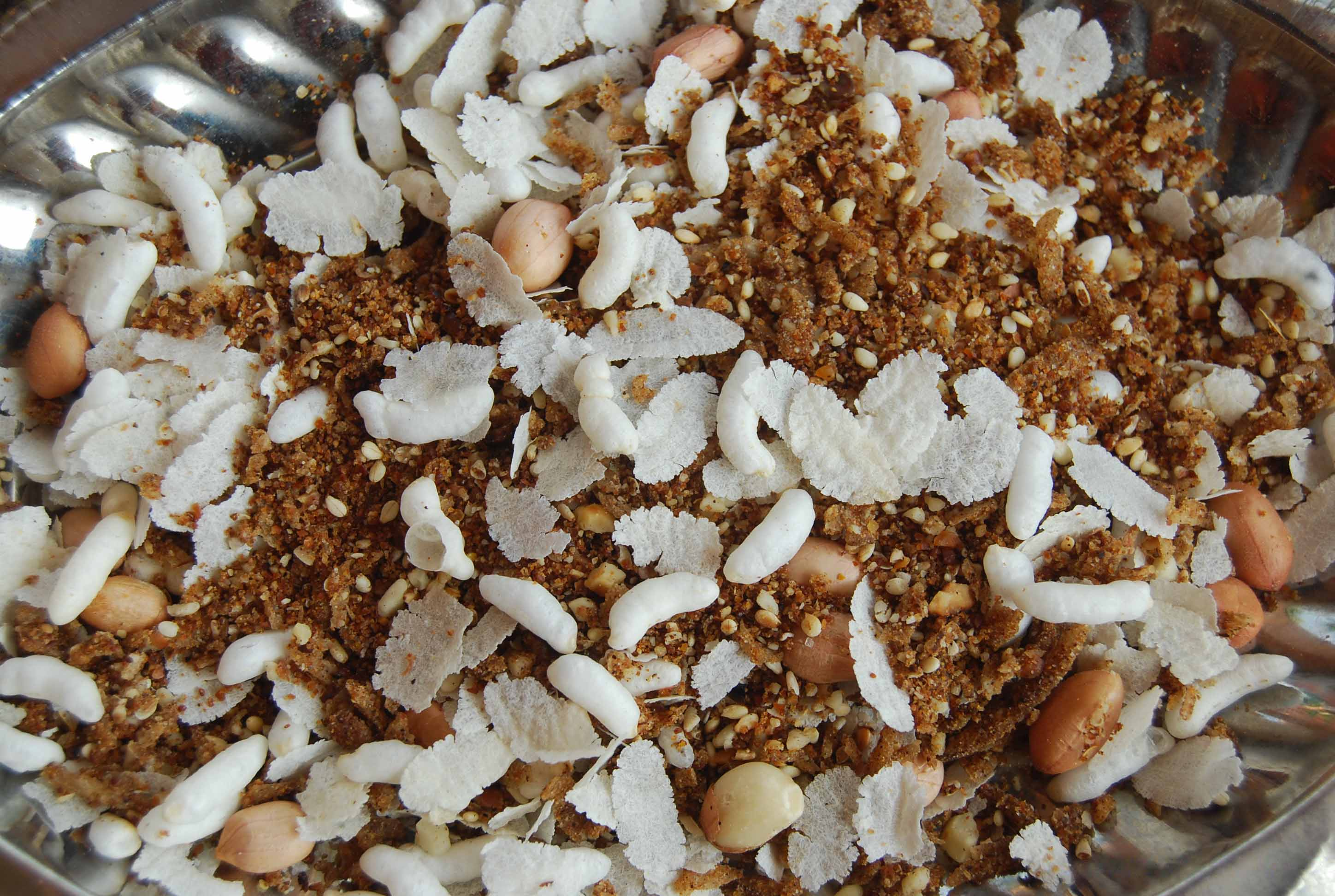 ಕೆಡ್ಡಸದ ವಿಶೇಷ ತಿನಿಸು